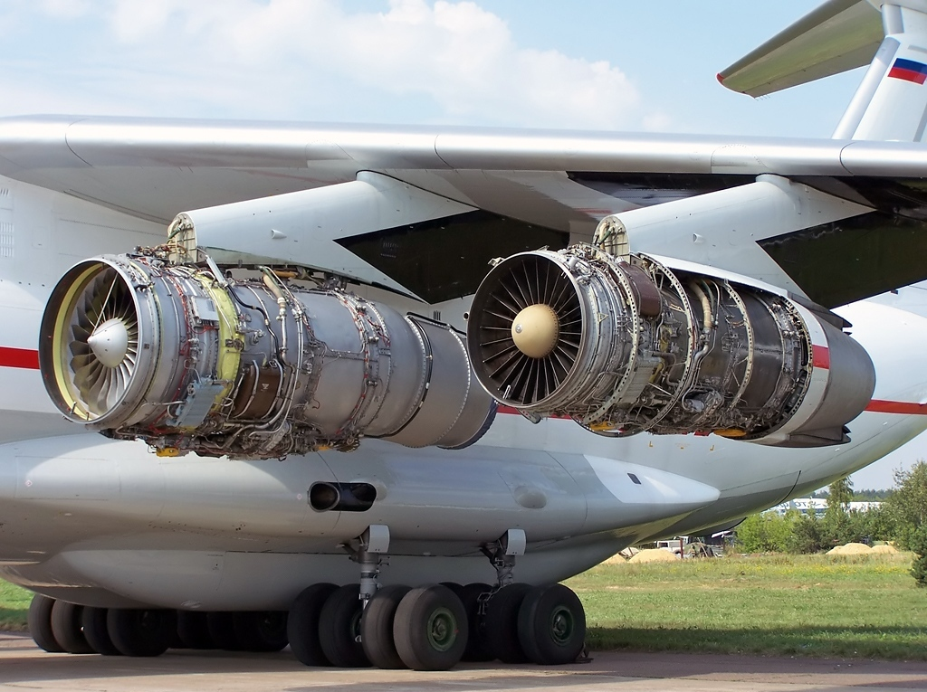 Flying testbed for flight research of the D-30KP-3 Burlak engine. This is developed by NPO Saturn for the IL-76 engine upgrade program, in accordance to the latest European noise reduction demands.